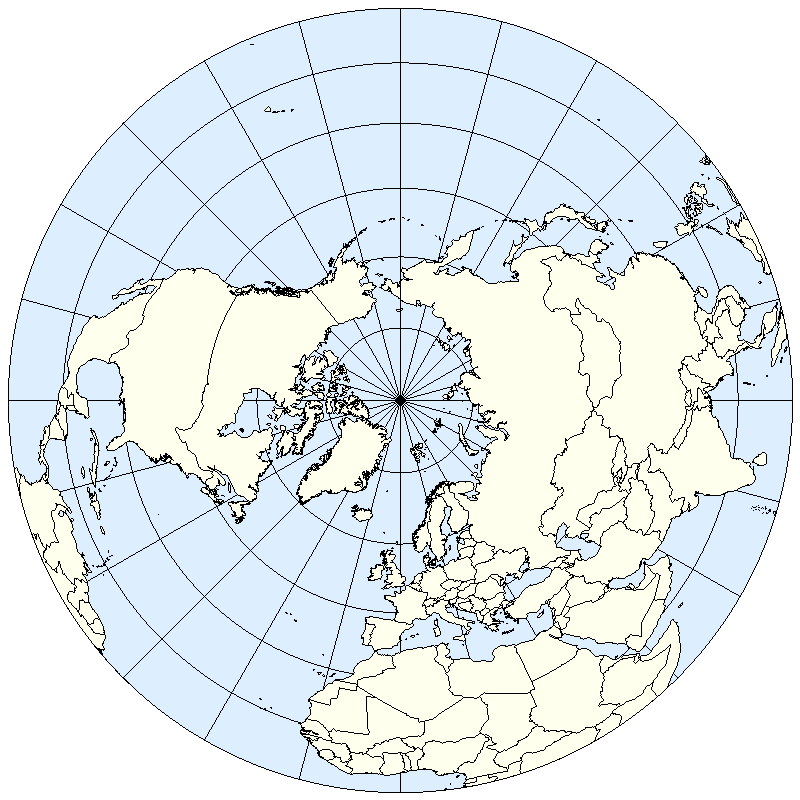 Northern Hemisphere of Earth (Lambert Azimuthal projection)